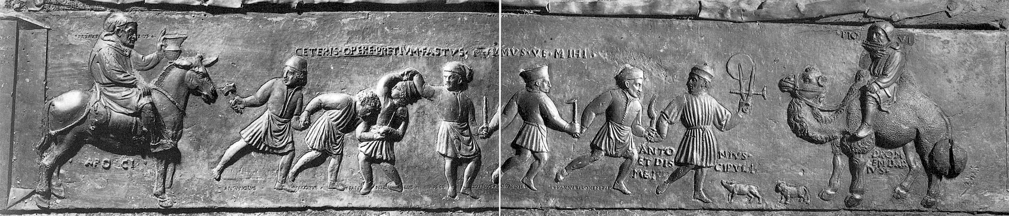 Self Portrait with Workshop, by Filarete; St. Peter in Rome, Porta del Filarete, backside of the left wing